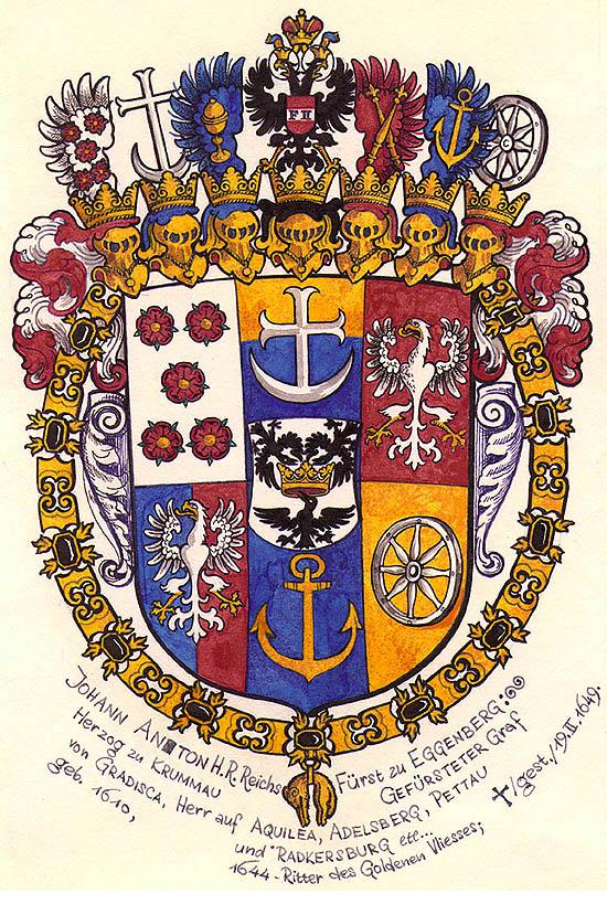 House of Eggenberg Coat of Arms